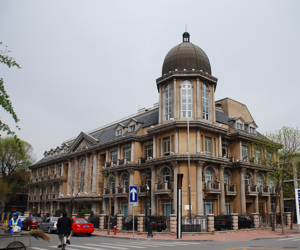 Posted via email from comer's posterous